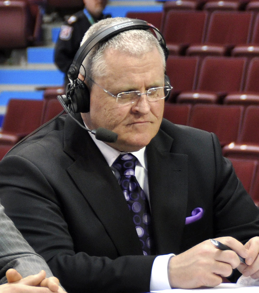 Bob McKenzie at the 2010 Winter Olympics